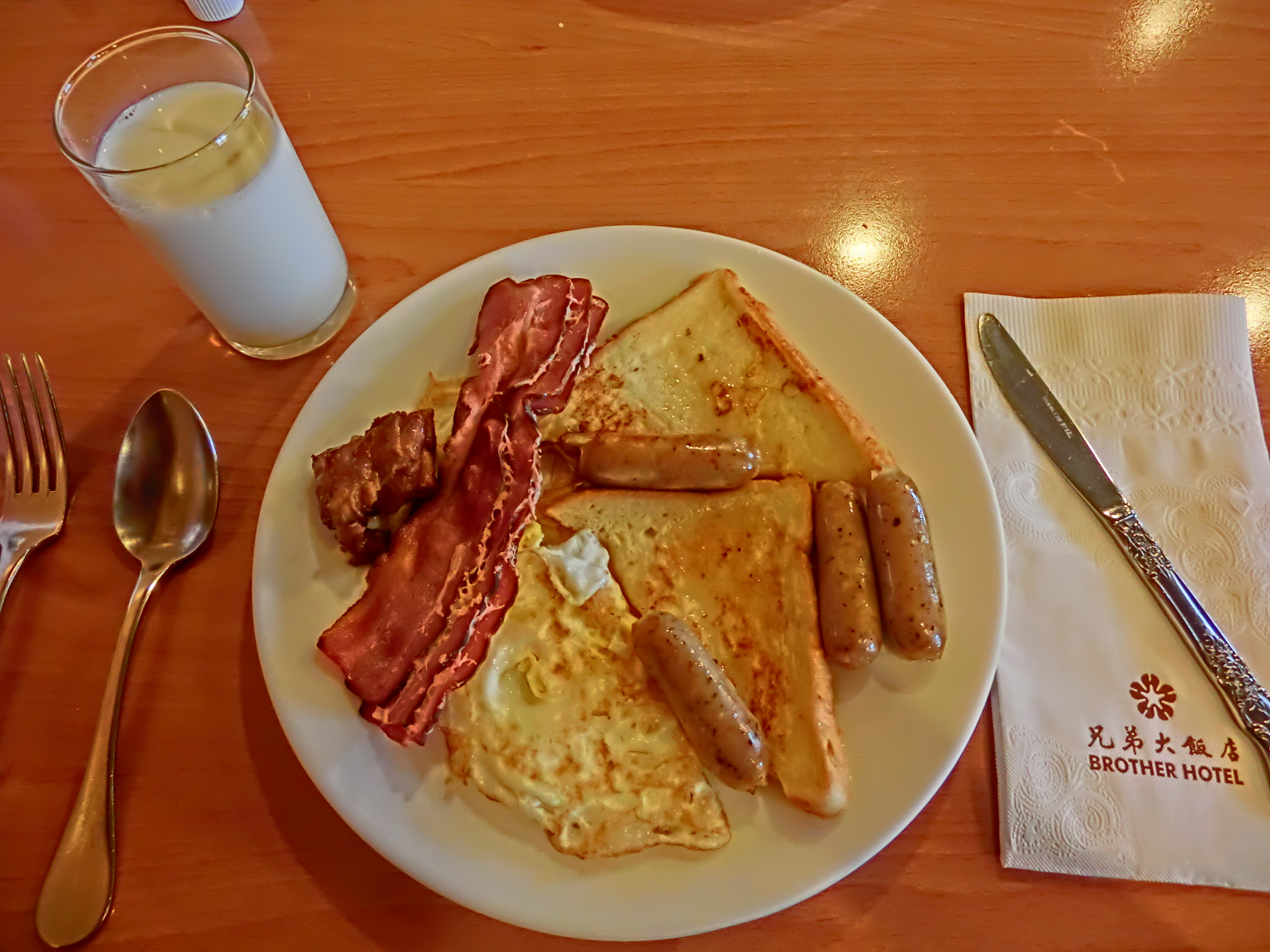 Buffet in Brother Hotel, Taiwan